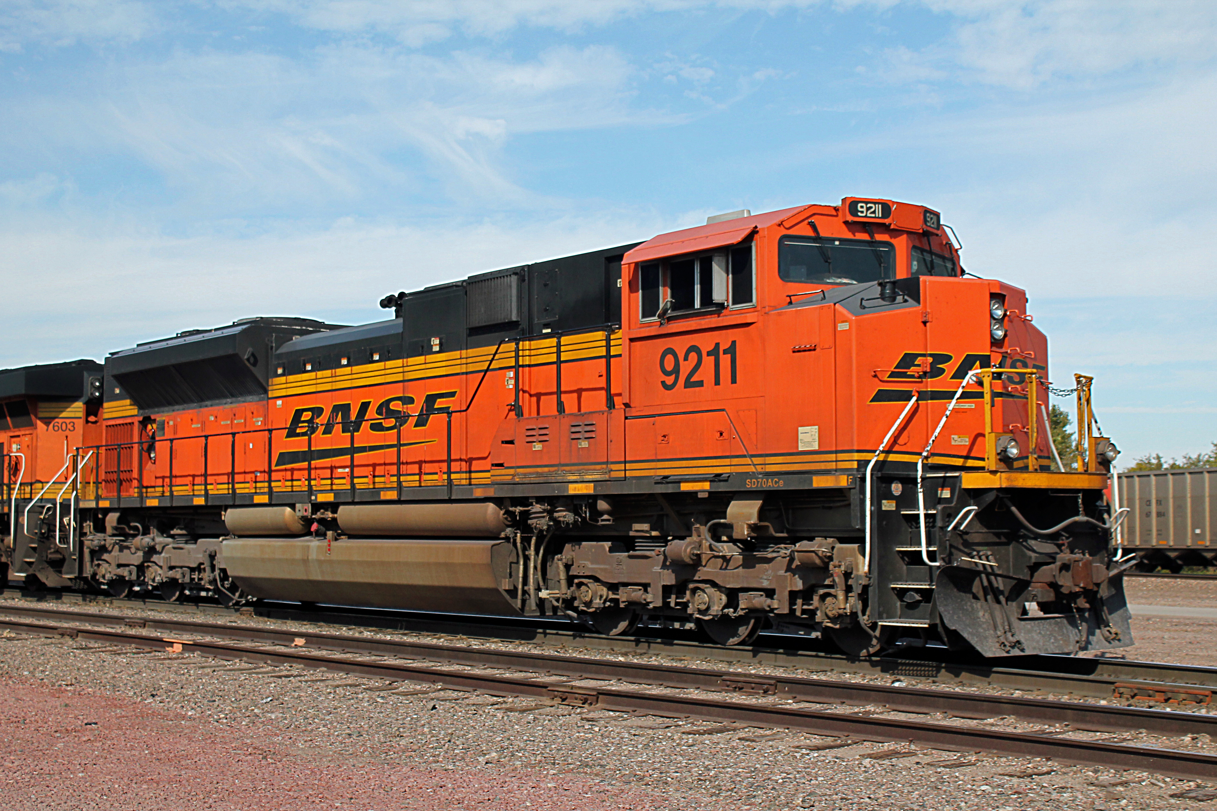 EMD SD70ACe no. 9211 at Lincoln, Nebraska